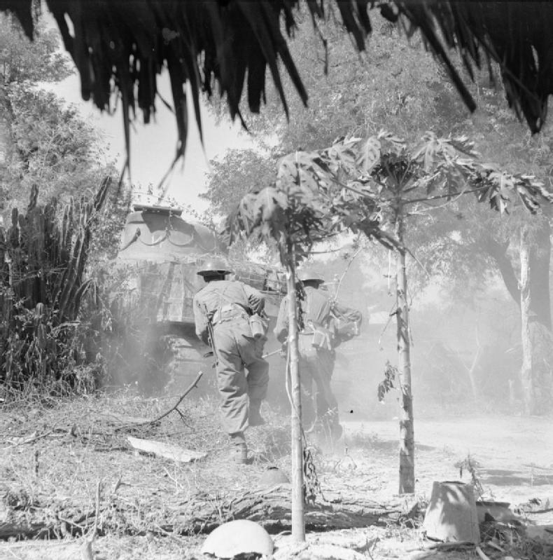 The British Army in Burma 1945 Lee tanks and infantry of 19th Division move forward in the suburbs of Mandalay, 10 March 1945.